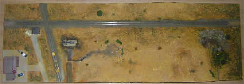 oNeTRAK module. oNeTRAK is a system of modular N-gauge model railways.